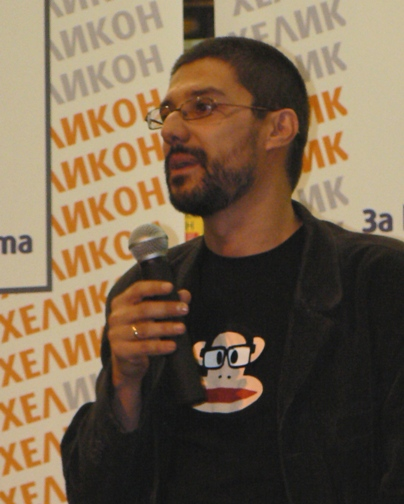 Bulgarian poet, literary critic and radio journalist Yordan Eftimov